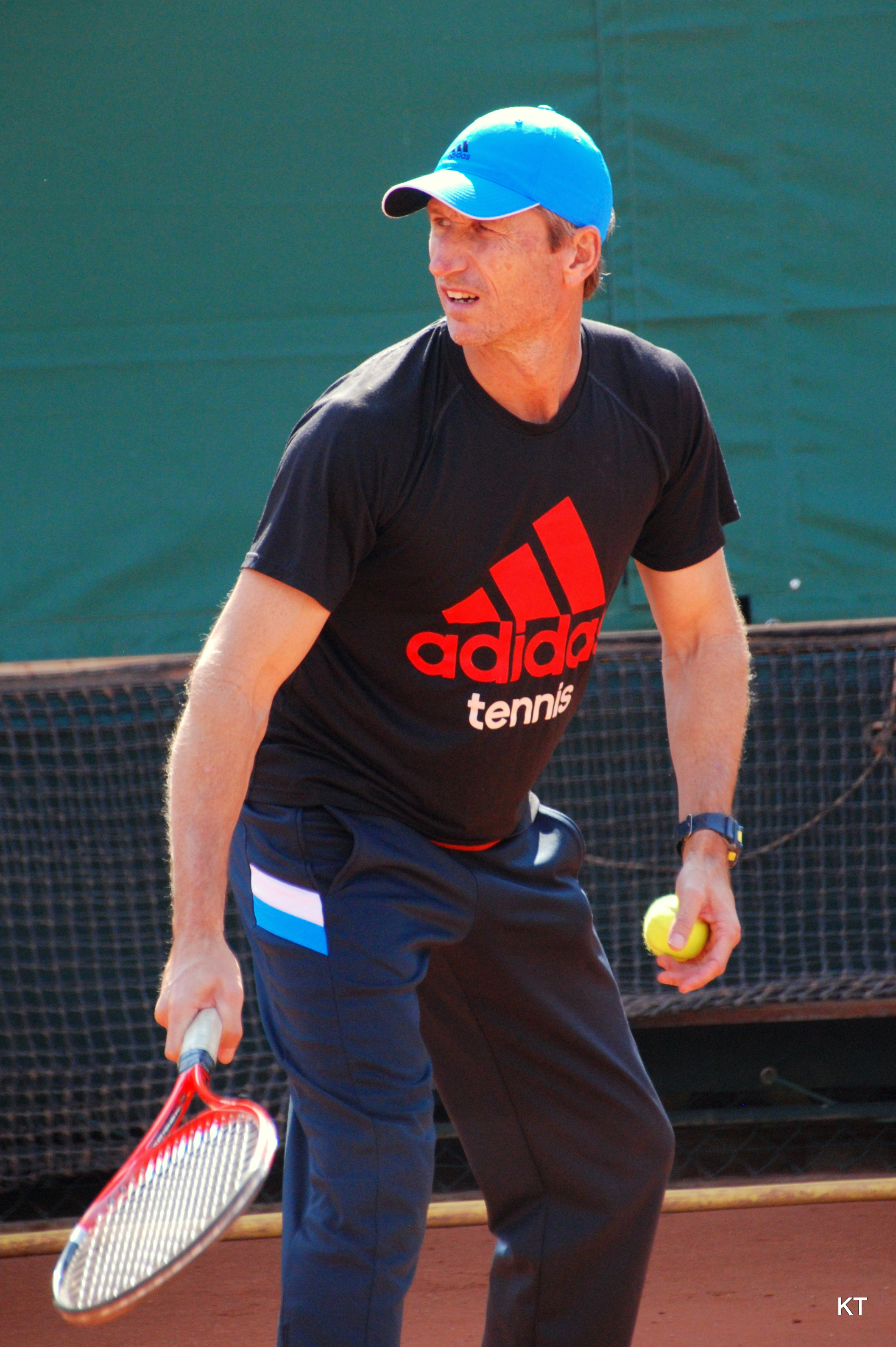 Days 4 - 7 Wednesday 28th to Saturday 31st May 2014, Roland Garros, Paris, France.